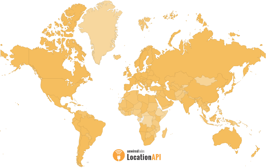 Unwired Labs LocationAPI Global Coverage Map